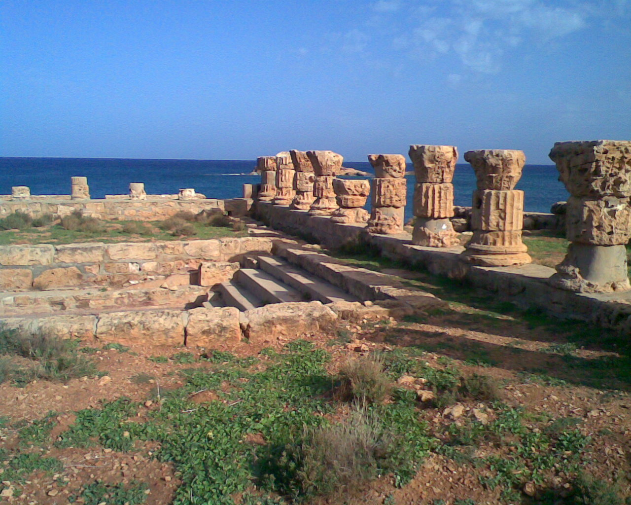 Ruins of Apollonia (Susah), Libya.